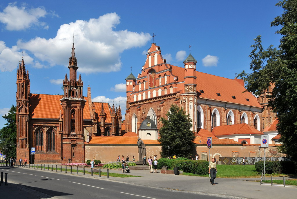 The first church at this site, constructed of wood, was built for Anna, Grand Duchess of Lithuania, the first wife of Vytautas the Great. Originally intended for the use of Catholic Germans and other visiting Catholics, it was destroyed by a fire in 1419. The present brick church was constructed on the initiative of Grand Duke of Lithuania Alexander[2] in 1495–1500; the exterior of the church has remained almost unchanged since then. A reconstruction of the church, funded by Mikołaj "the Black" Radziwiłł and Jerzy Radziwiłł, was carried out following severe fire damage, in 1582. Most recent reconstruction followed in 2009. Bron: Wikipedia The Bernardine Church, or Church of St. Francis and St. Bernardine as it is also known, is located beside the Church of St. Anne. It contrasts drastically with the tall, spired, Gothic St. Anne's, with its more subtle, Renaissance styling. During Soviet times, the Franciscan monks were forced to abandon the church and go underground and the church was turned into a warehouse. However, after independence was restored, the monks restores and the church is now, again, a place of worship. Bron